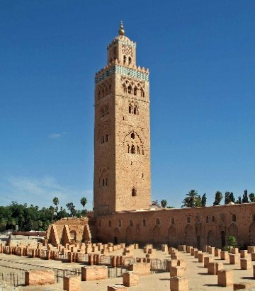 Koutoubia Mosque, Marrakech. Morocco